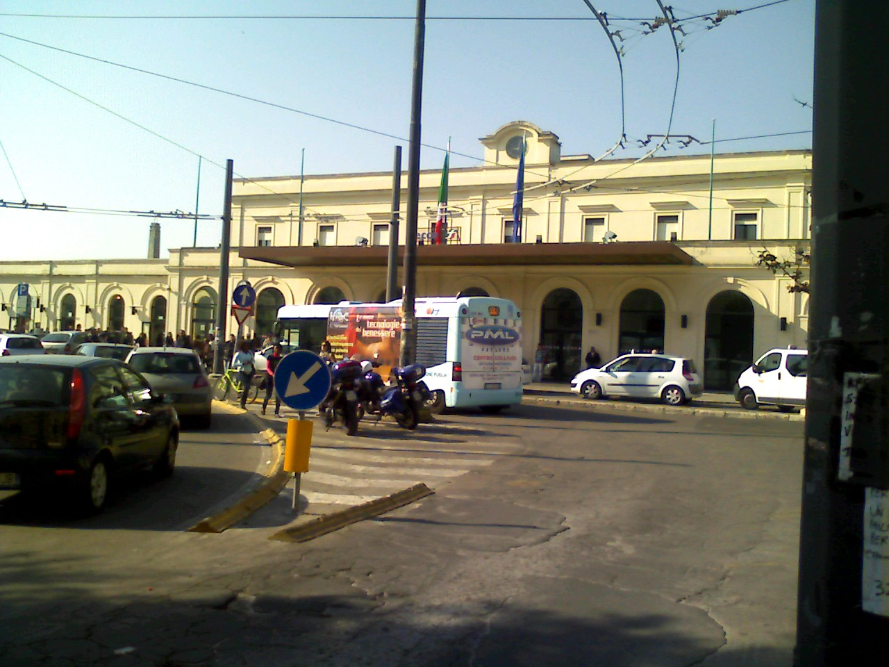 Lecce train station